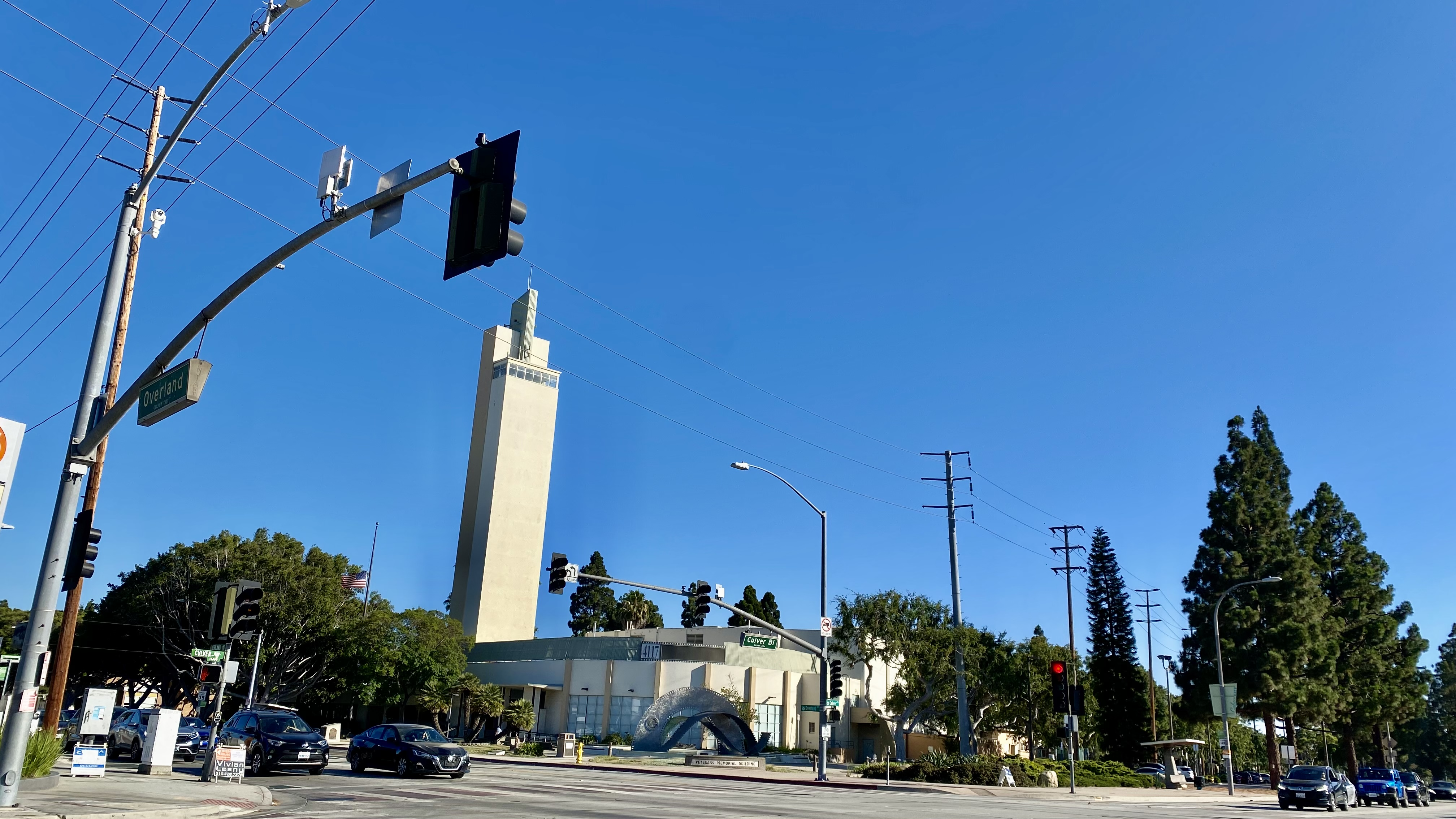 Veterans Memorial Building with bell tower at Veterans Memorial Park at the corner of Culver Blvd. and Overland Ave., Culver City, California, United States